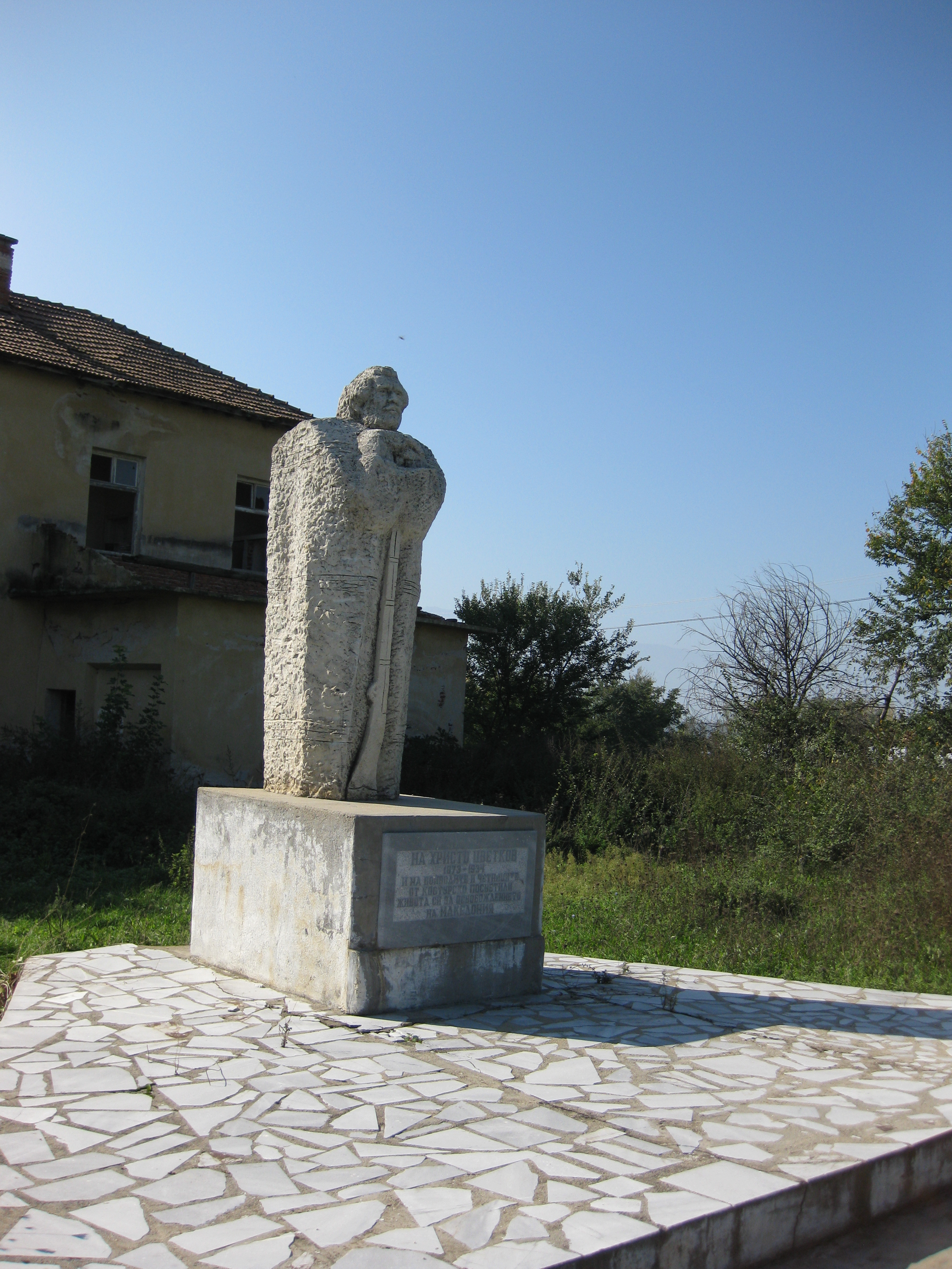 Monument of Hristo Tsvetkov and all Bulgarian revolutionaries from Kastoria area fighting for freedom of Macedonia. Novo Konomladi village, Bulgaria